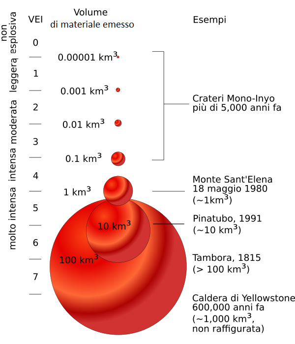 VEI Scale